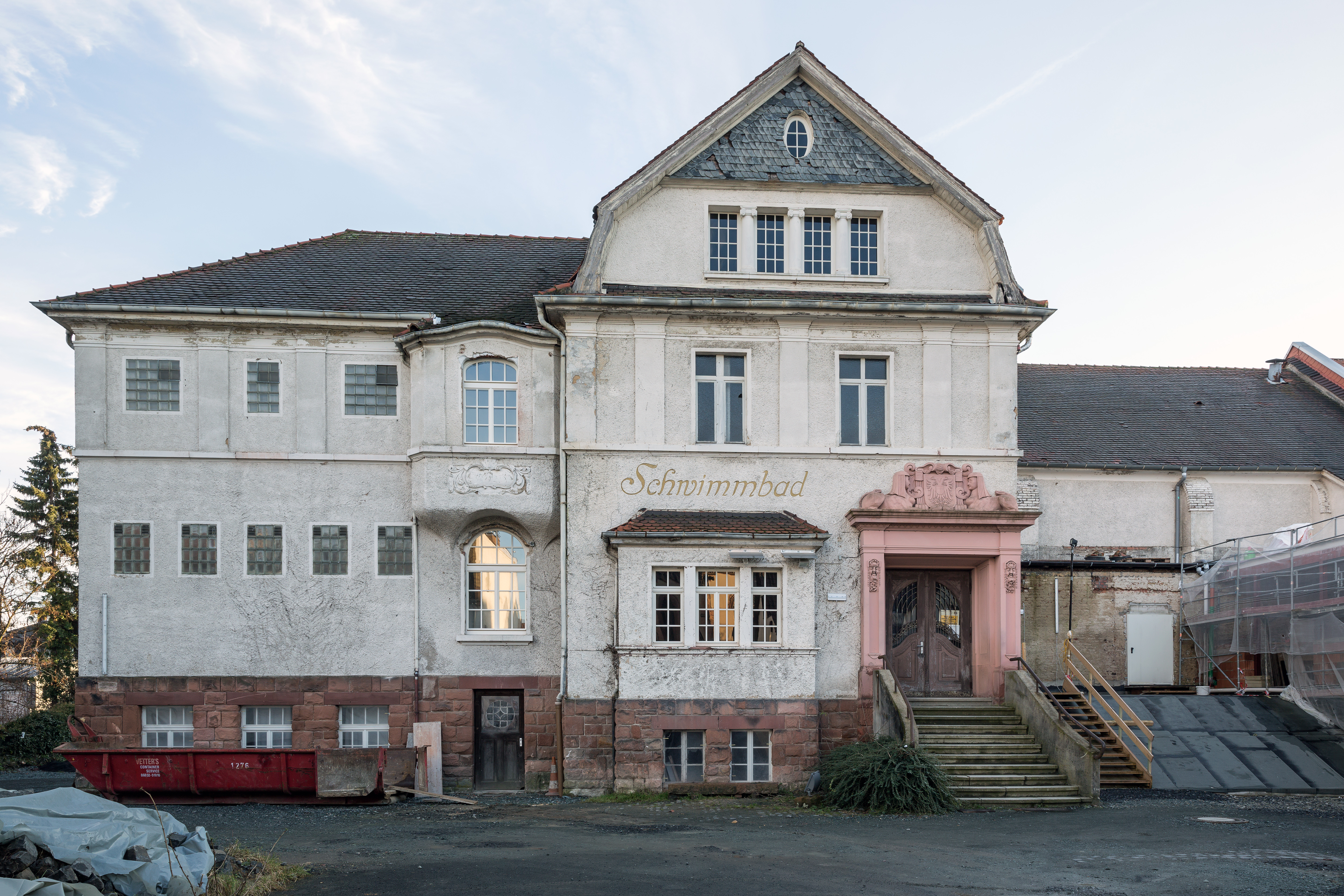 Friedberg (Hesse): Haagstraße (Hague Street) 29 as seen from the north